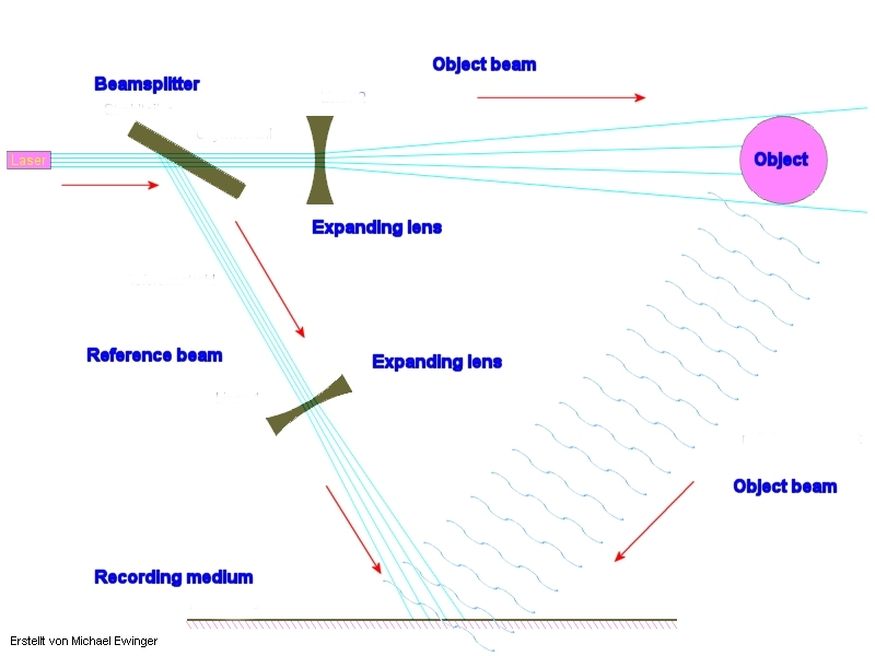 Optical arrangement for making a transmission hologram